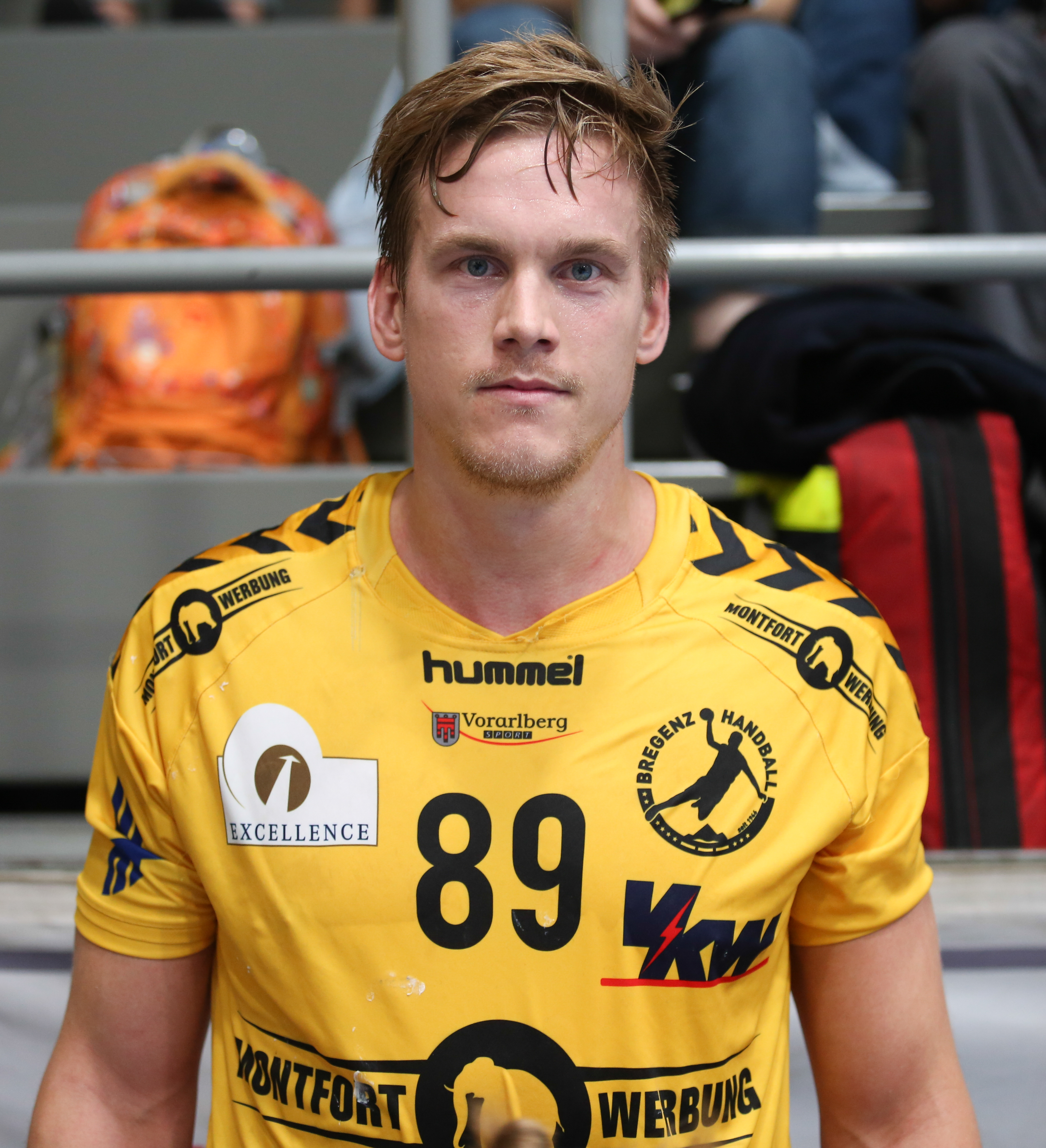 Espen Lie Hansen after a game of the Handball Liga Austria.